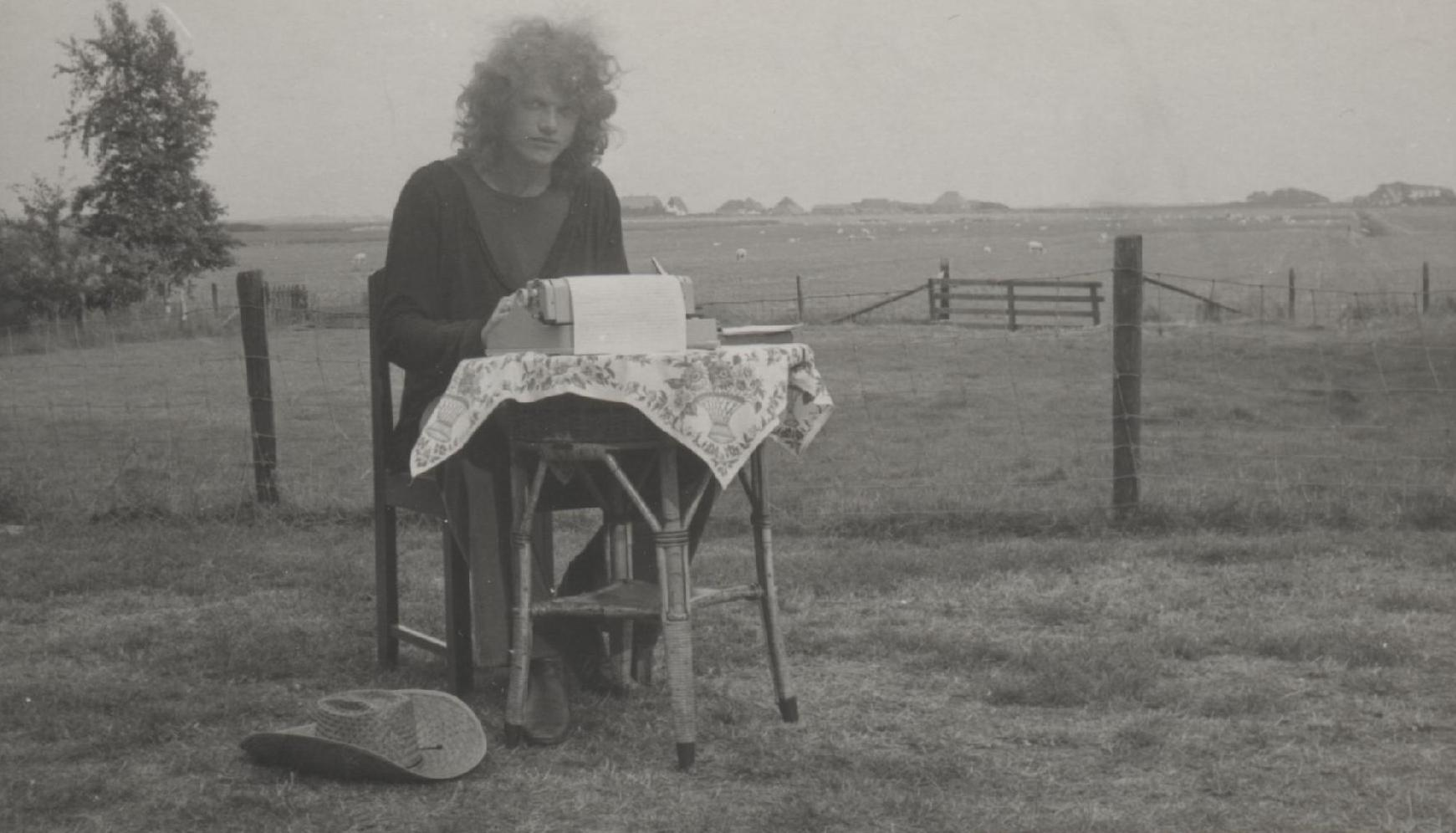 Writer Alex Verburg on the isle of Texel, 1973